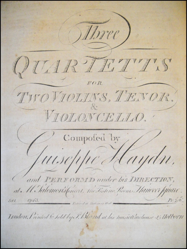 Advertisement for the String Quartets Op.65 of Joseph Haydn. Text reads: Three Quartetts, for Two Violins, Tenor & Violoncello, Composed by Guiseppe [sic] Haydn, and Performd [sic] under his Direction, at Mr. Salomon's Concert, the Festino Rooms, Hanover Square. Set 1, Op.65. [Hob.III/63-65. Parts]. Pr. 7/6. London: Printed & Sold by J. Bland at his Music Warehouse 13 Holborn, [1791]